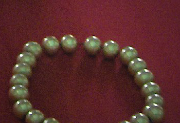 Golden bracelet; found in the royal tombs in Alacahöyük; 2300-2000 BC; product of Hattian art; Museum of Anatolian Civilizations, Ankara, Turkey